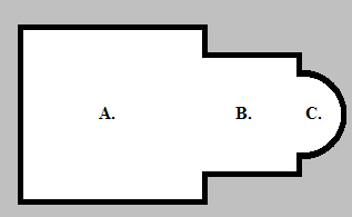 Grunnplan av en romansk kirke - ground plan of a Romanesque church